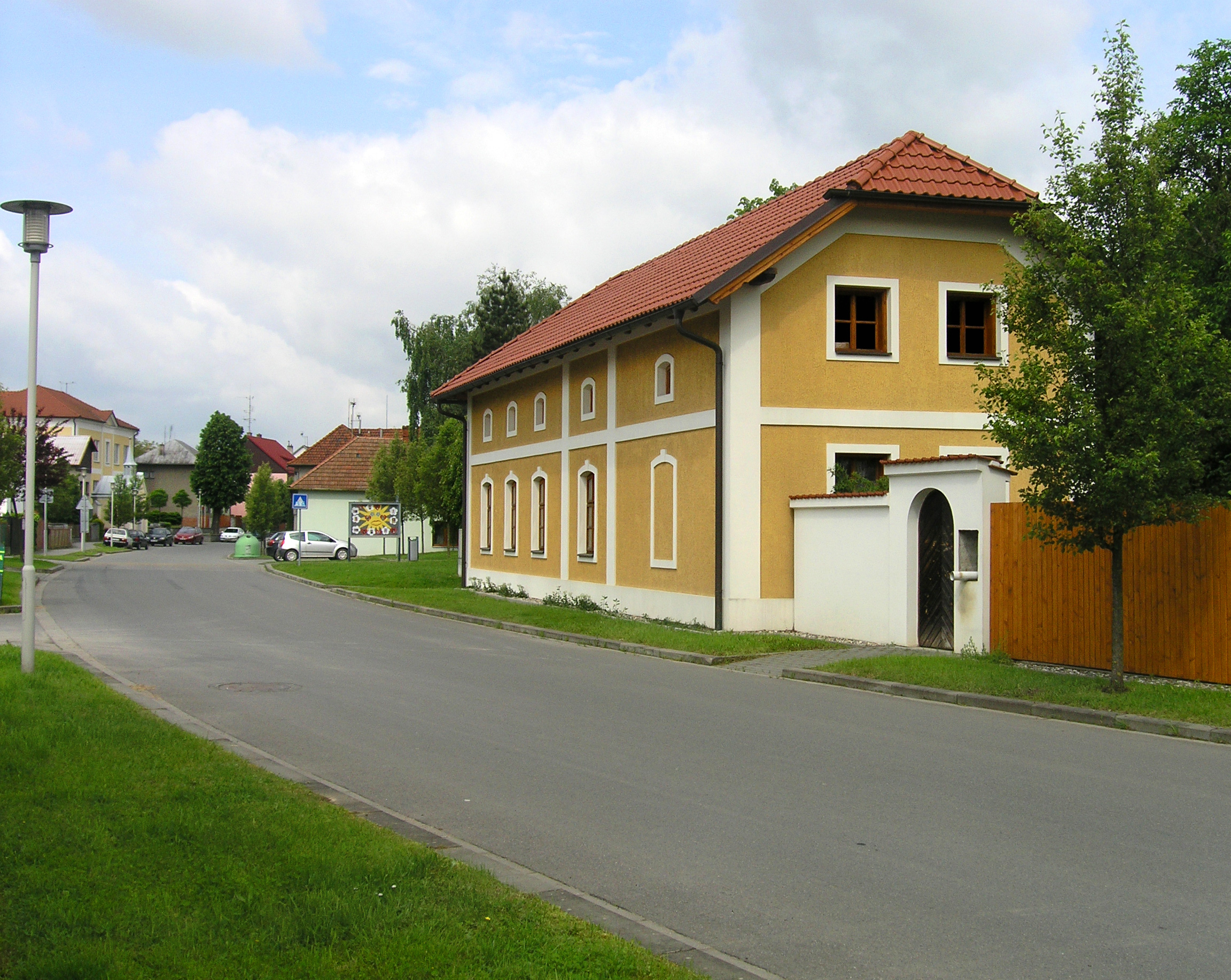 Lípa village, Czech Republic